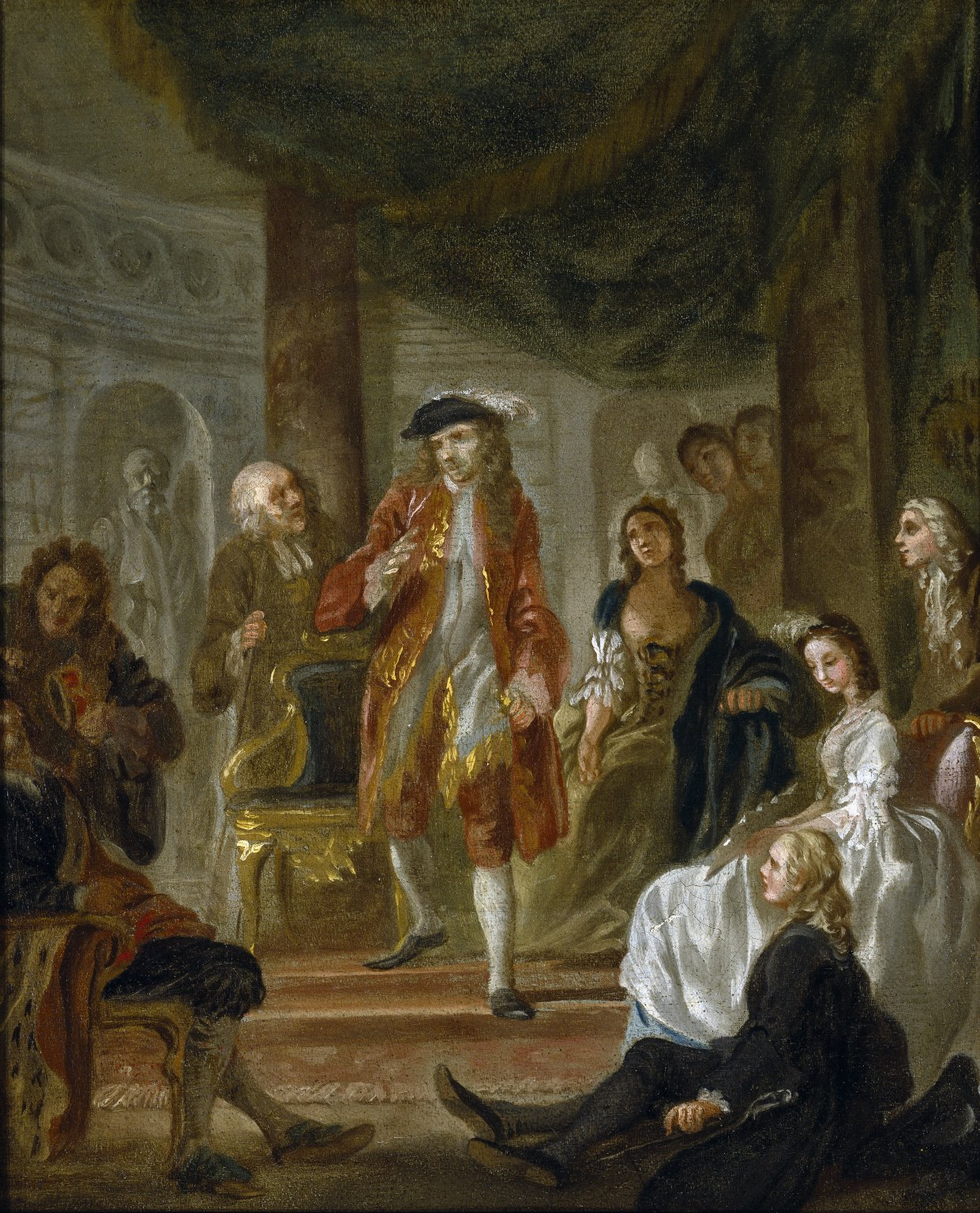 From Act III, Scene 2 of William Shakespeare's Hamlet